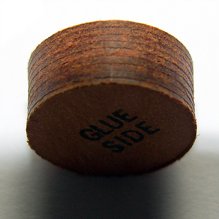 Moori cue tip.